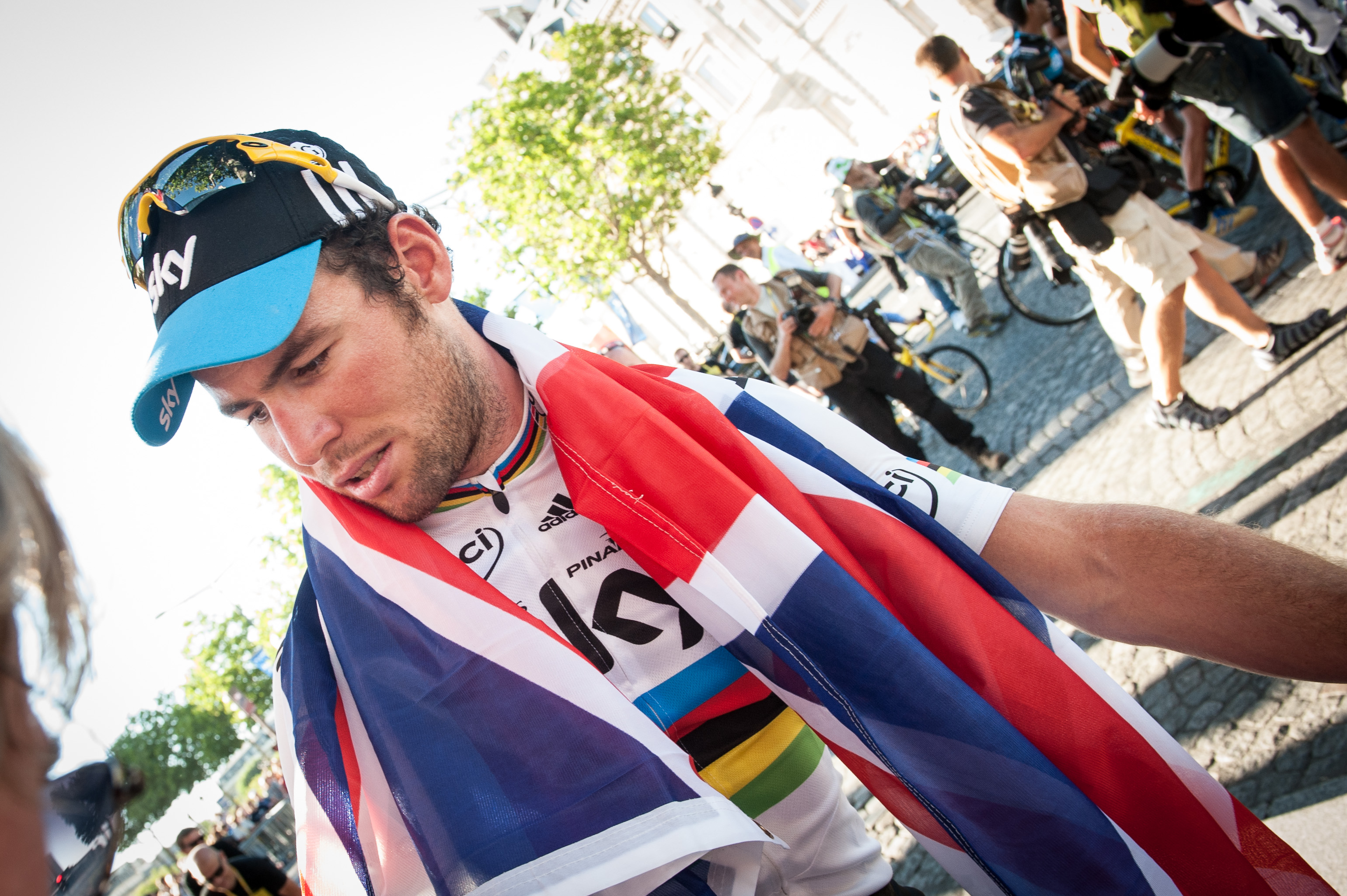 Mark Cavendish - 2012 Tour de France